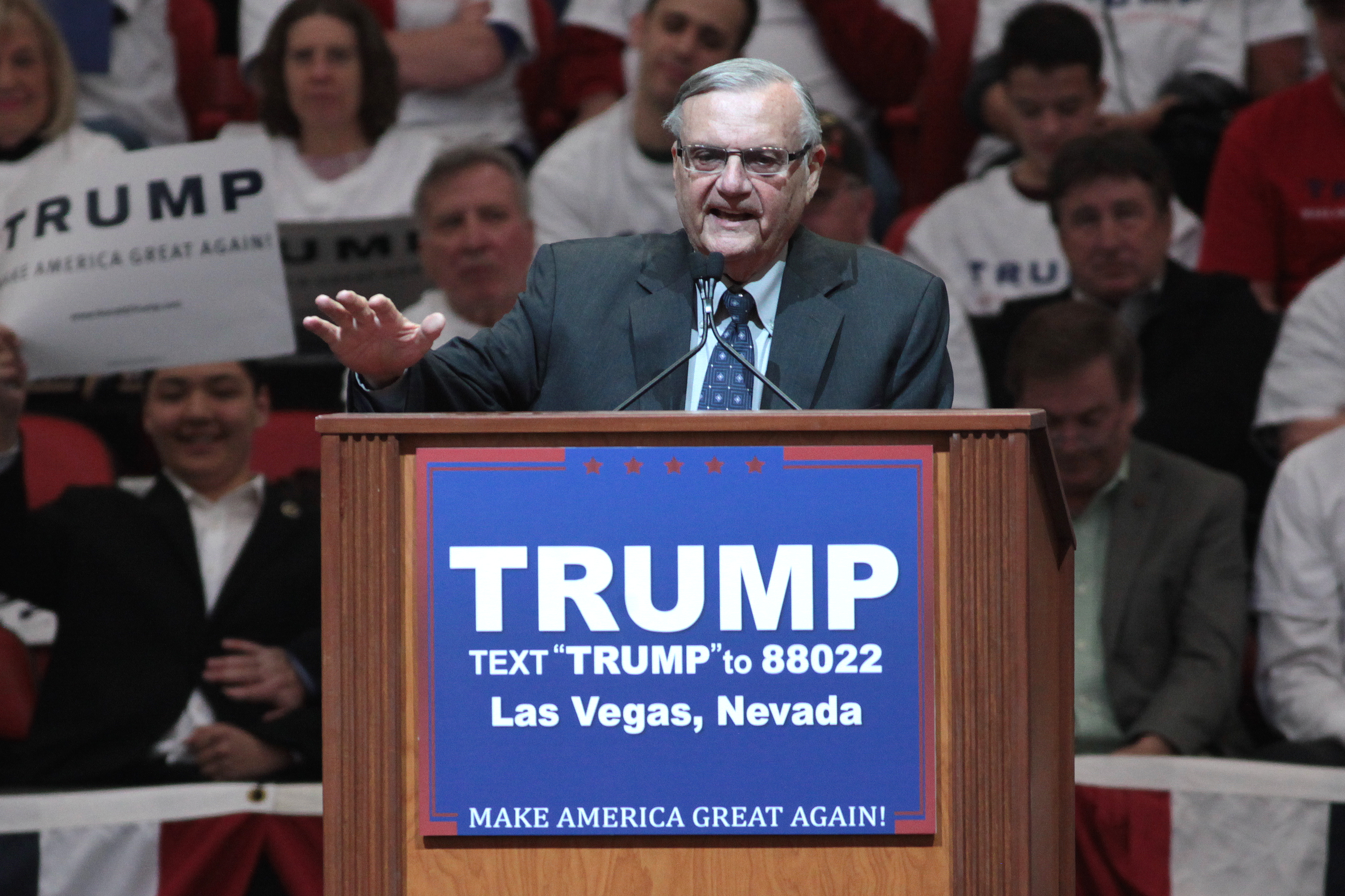 Sheriff Joe Arpaio speaking with supporters of Donald Trump at a campaign rally at the South Point Arena in Las Vegas, Nevada.